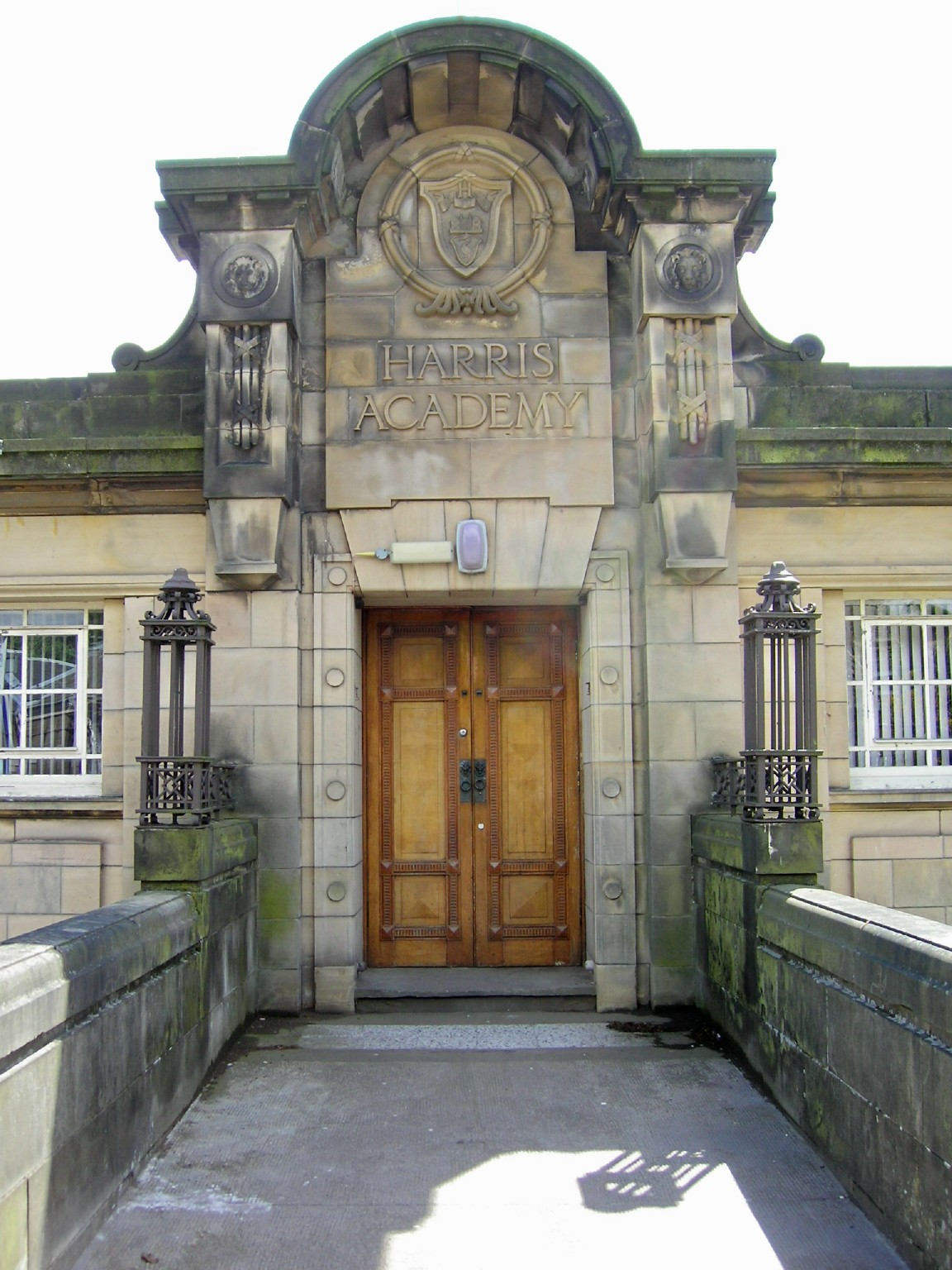 Harris Academy, Front Door